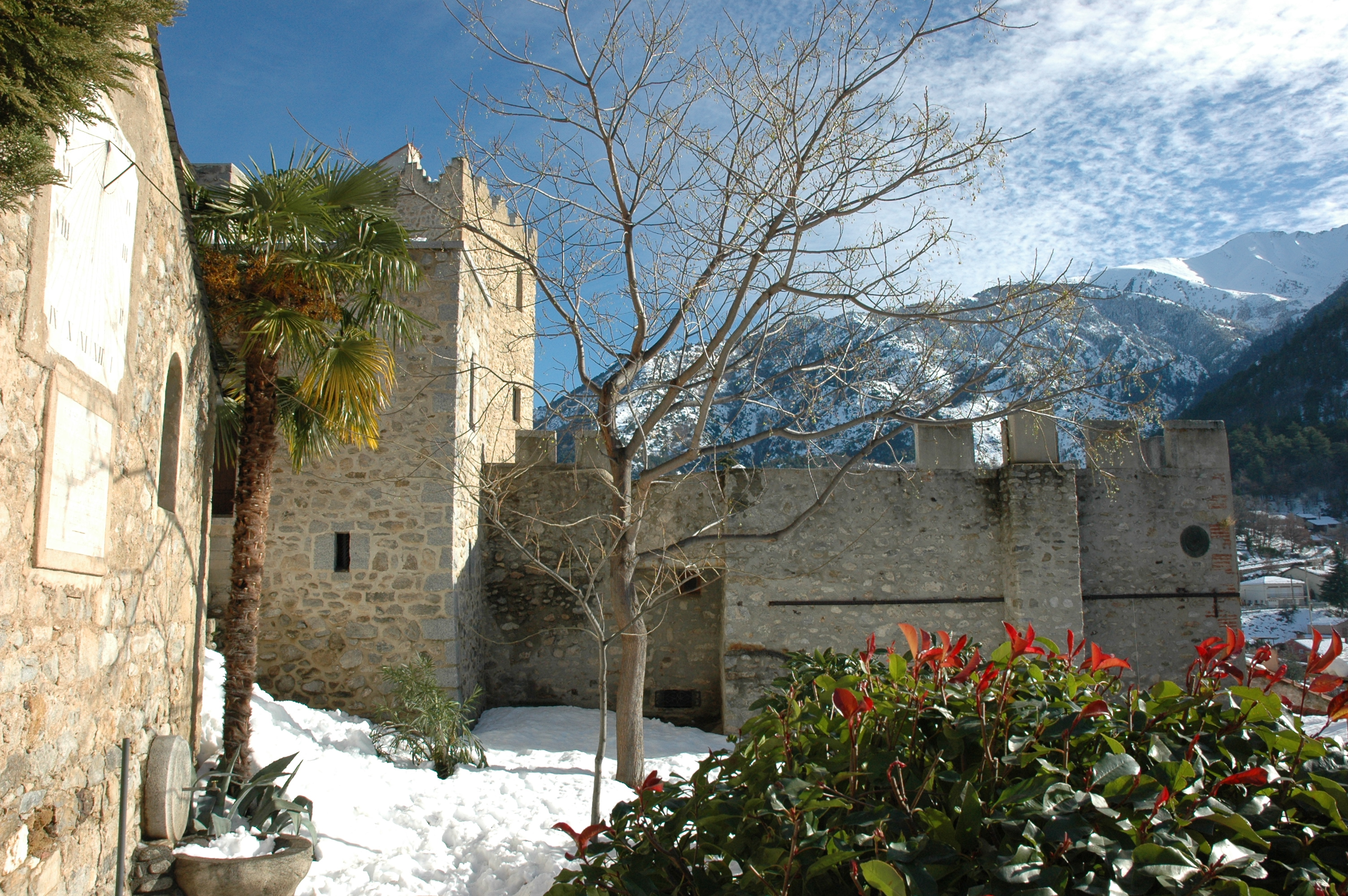 Castle of Vernet-les-Bains, Pyrénées-Orientales, France.